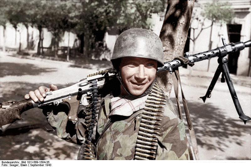 This is a retouched picture, which means that it has been digitally altered from its original version. Modifications: recolored. The original can be viewed here: Bundesarchiv Bild 101I-569-1584-35, Italien, Fallschirmjäger mit MG 34 in Ortschaft.jpg: . Modifications made by Ruffneck88. Italien, Fallschirmjäger mit MG 34 in Ortschaft Photographer Seeger, ErwinArchive description Description provided by the archive when the original description is incomplete or wrong. You can help by reporting errors and typos at Commons:Bundesarchiv/Error reports. Italien.- Fallschirmjäger geschultertem Maschinengewehr 34 und umhängendem Patronengürtel in einer Ortschaft, posierend; PK Fs AOKTitle Italien, Fallschirmjäger mit MG 34 in Ortschaft Depicted place Italien, World War II, unknown townDate September 1943date QS:P571,+1943-09-00T00:00:00Z/10Collection German Federal Archives Native nameDas BundesarchivLocationKoblenz (headquarters)Coordinates50° 20′ 32.71″ N, 7° 34′ 21.22″ E Established1946Web page control : Q685753 VIAF: 137346469 ISNI: 0000 0004 0555 2728 LCCN: n92025526 NLA: 36455393 Open Library: OL55798A WorldCat institution QS:P195,Q685753Current location Propagandakompanien der Wehrmacht - Heer und Luftwaffe (Bild 101 I)Accession number Bild 101I-569-1584-35 Source This image was provided to Wikimedia Commons by the German Federal Archive (Deutsches Bundesarchiv) as part of a cooperation project. The German Federal Archive guarantees an authentic representation only using the originals (negative and/or positive), resp. the digitalization of the originals as provided by the Digital Image Archive.